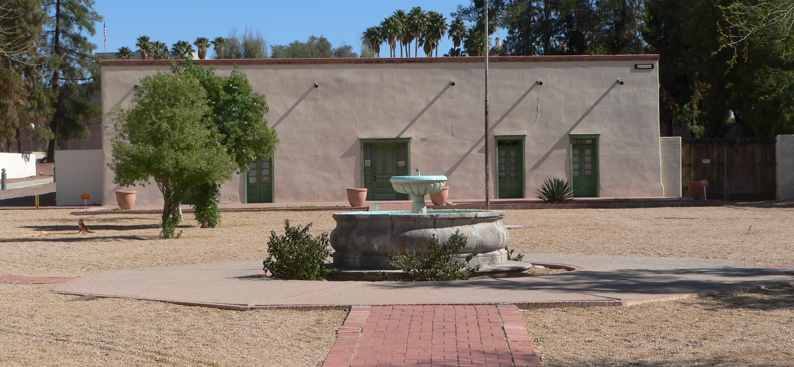 Sosa-Carillo-Fremont House, located in the Tucson Convention Center complex south of Broadway Boulevard between Church and Granada Avenues in Tucson, Arizona; seen from the west.